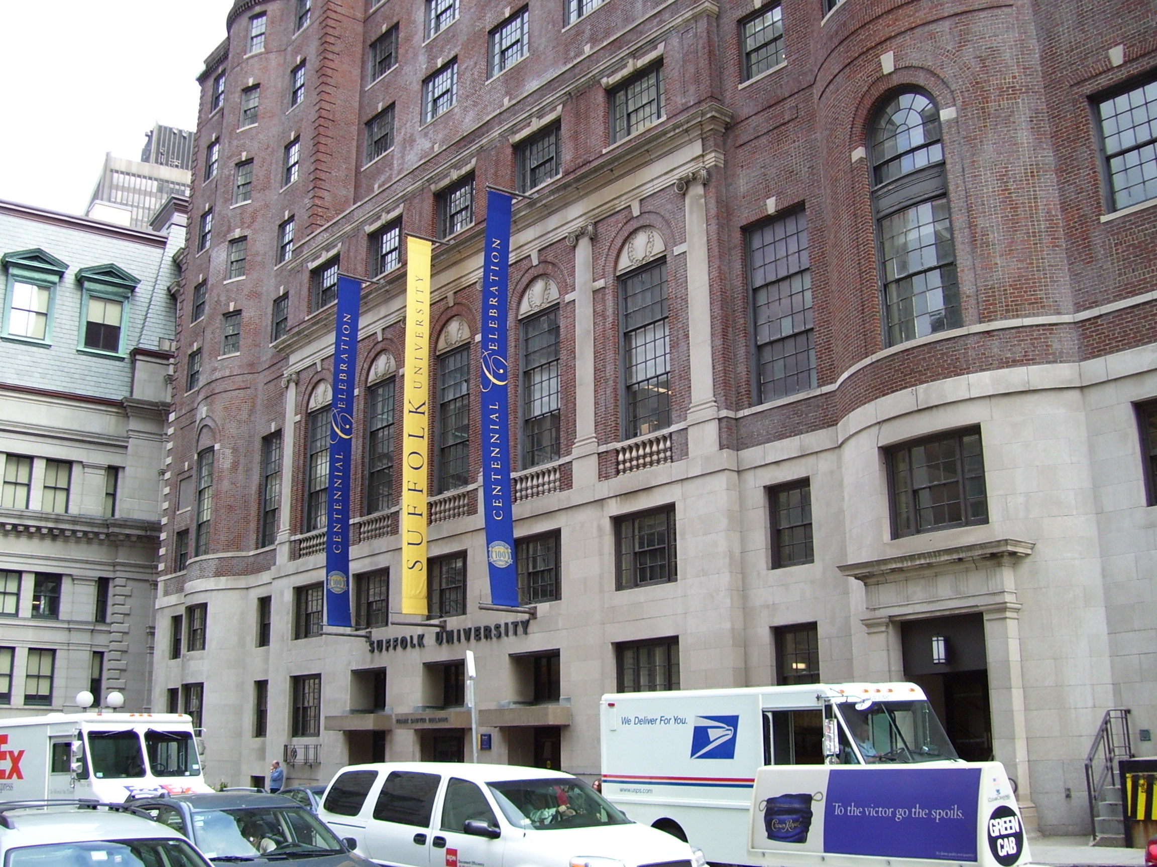 Sawyer Business School at Suffolk University in Boston, MA by me in 2008